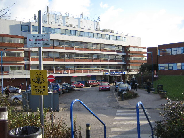 Kettering General Hospital. Looking SE from the car park towards the main entrance.